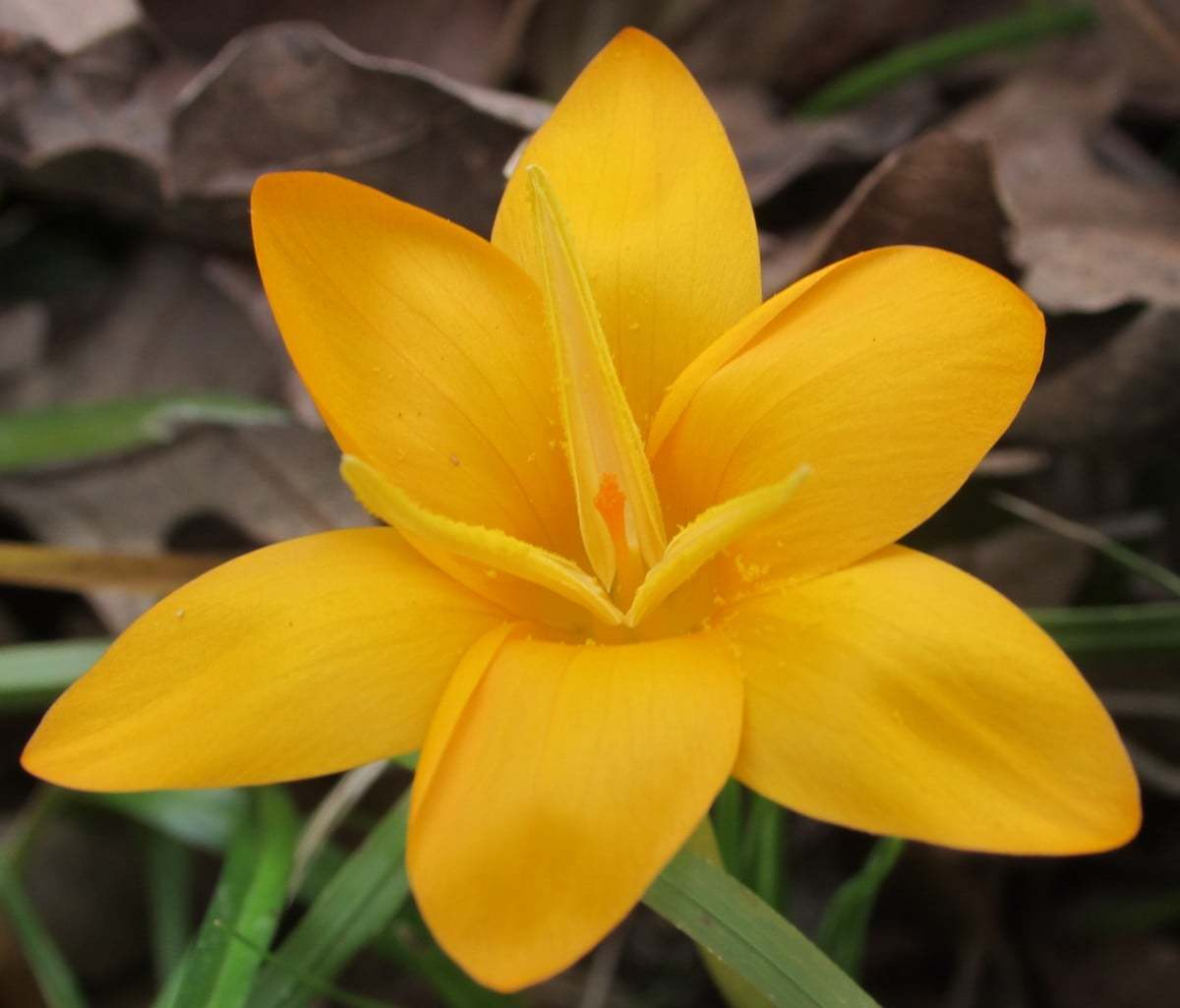 Crocus flavus stigma